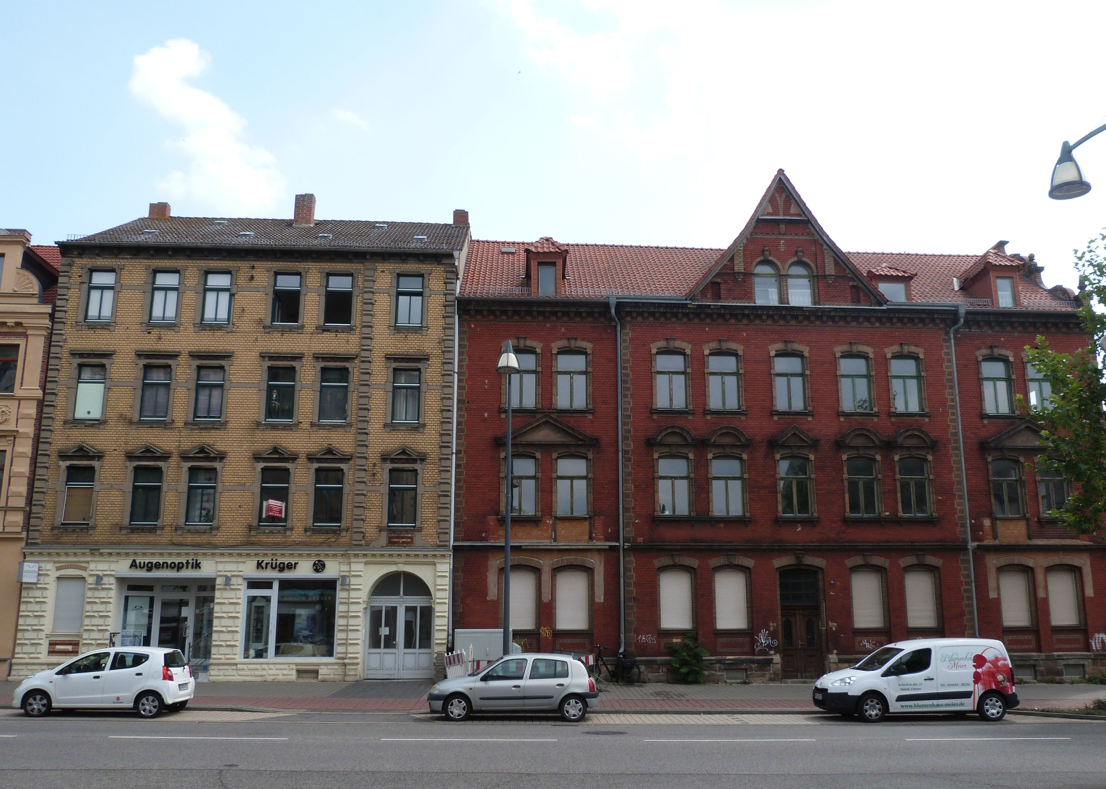 Houses No. 21 and 23, Merseburger Strasse, Weissenfels, Saxony-Anhalt